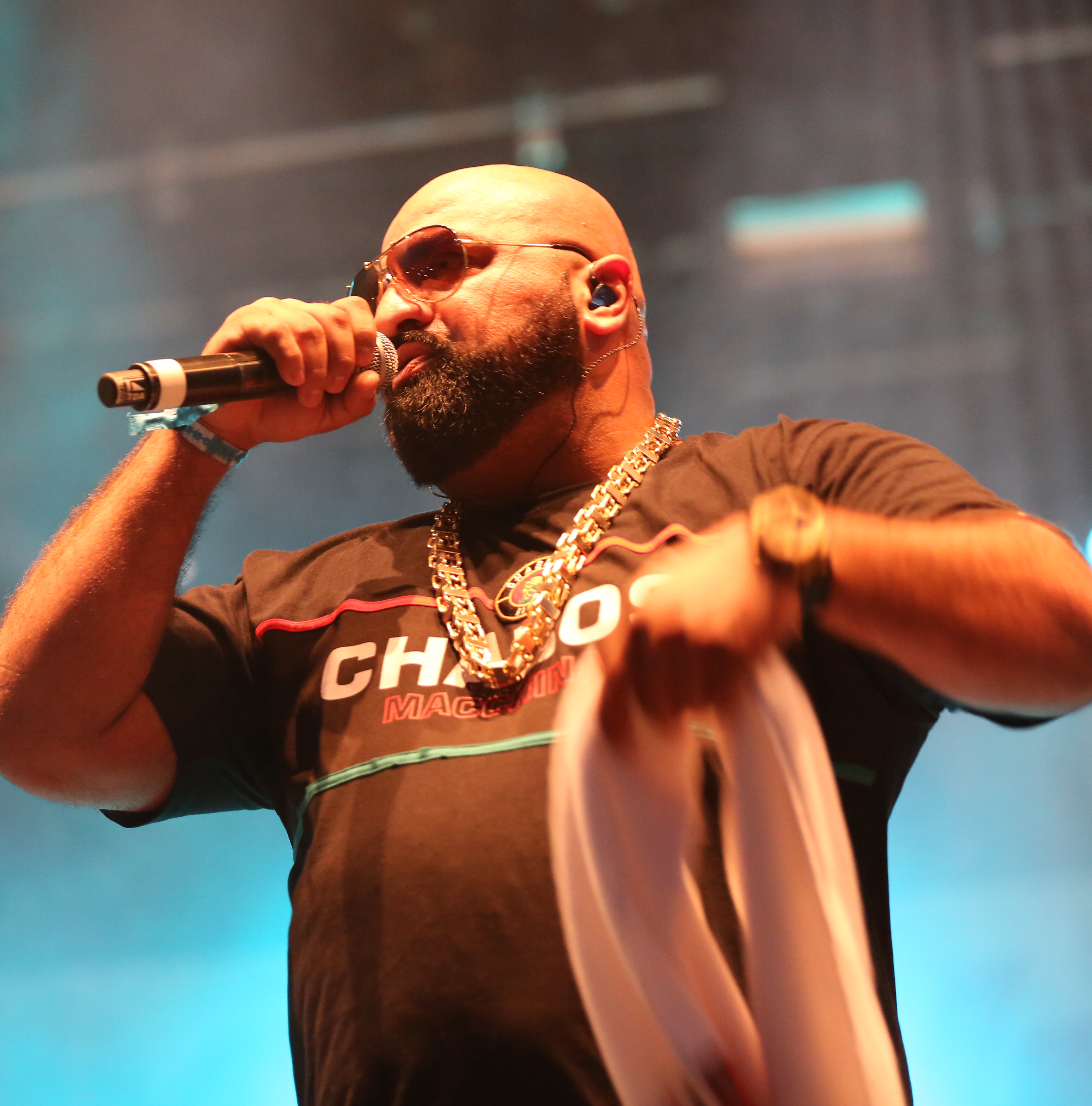 Xatar beim Out4Fame-Festival 2016